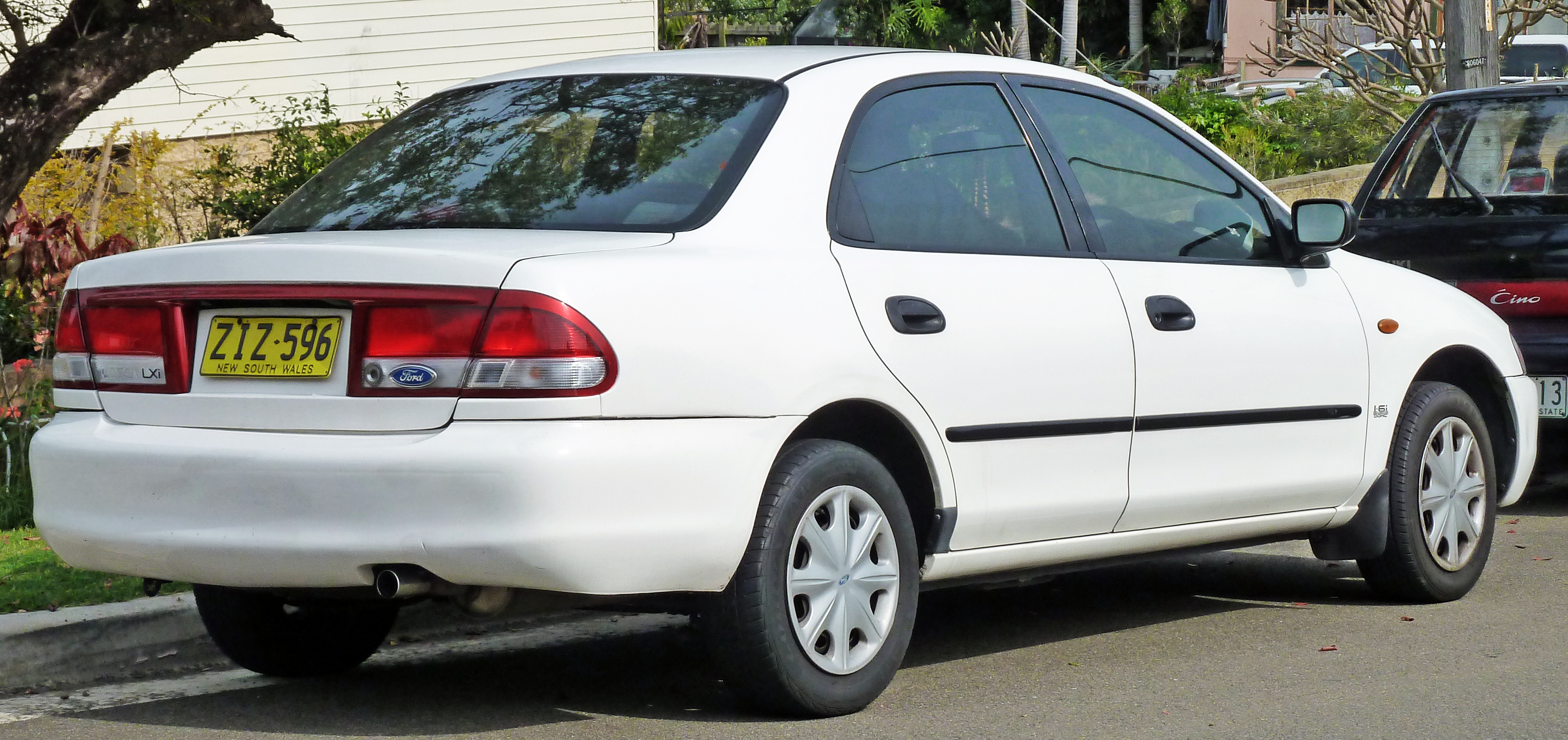 1997 Ford Laser (KJ II (KL)) LXi sedan. Photographed in Taren Point, New South Wales, Australia.